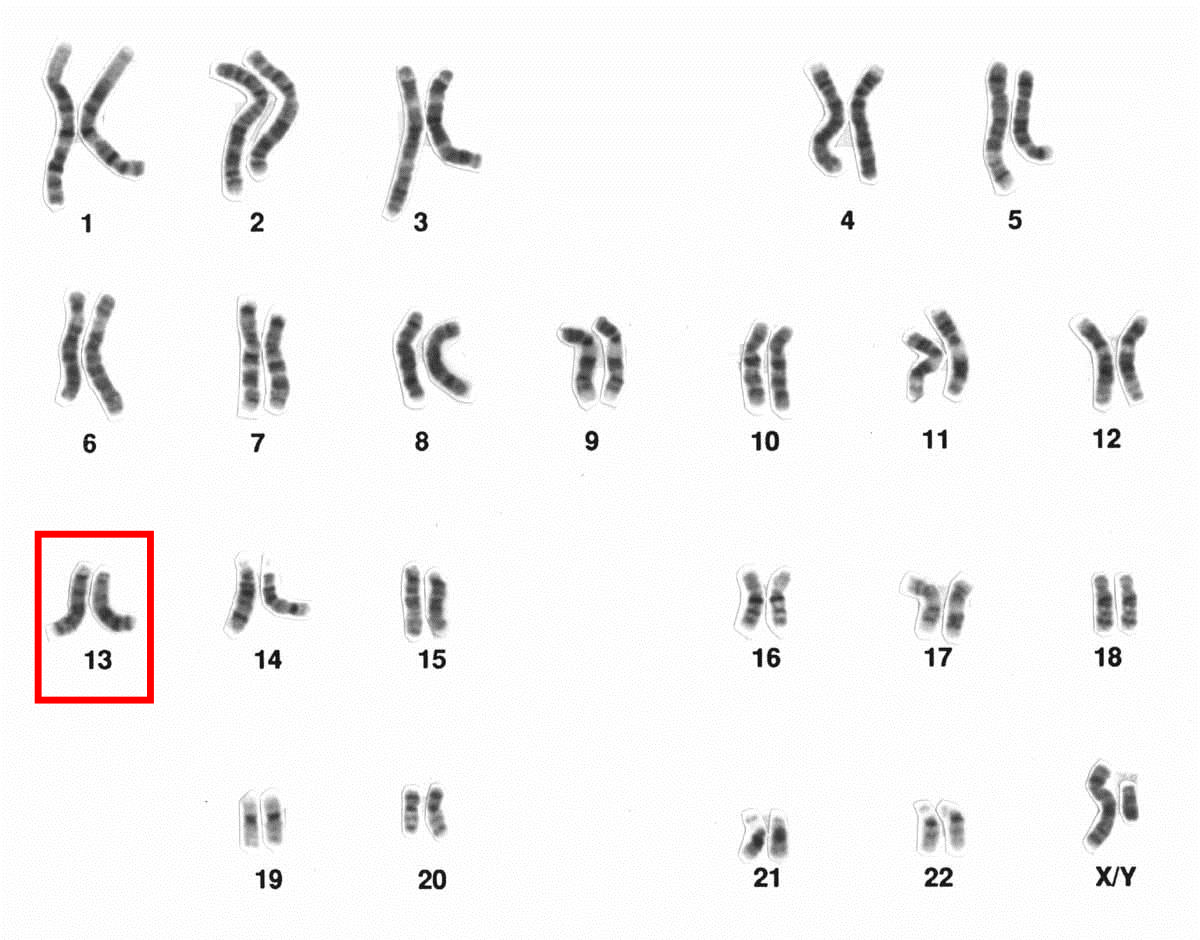 Human male Karyotype after G-banding. Chromosome 13 highlighted